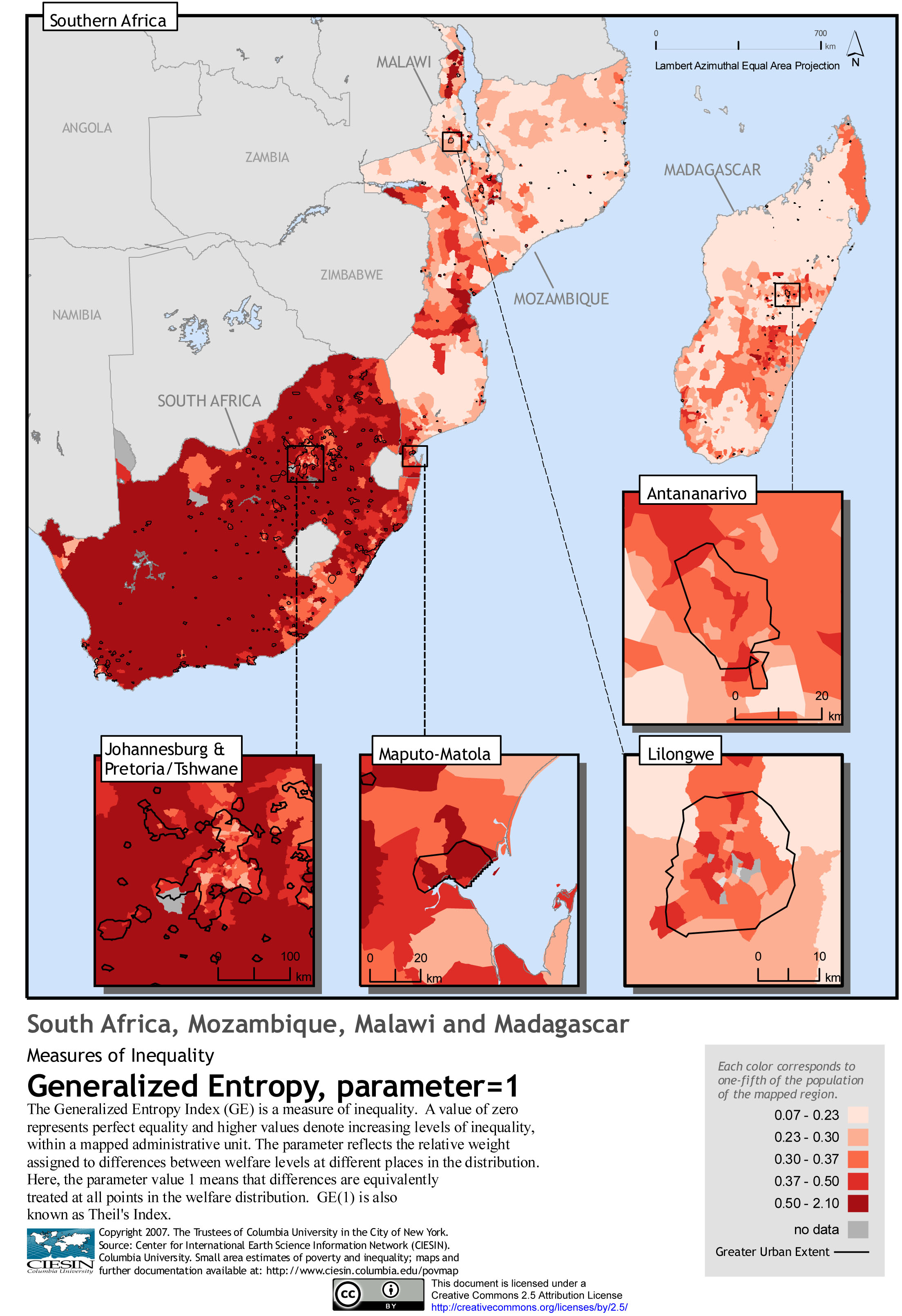 South Africa Poverty Gap Index